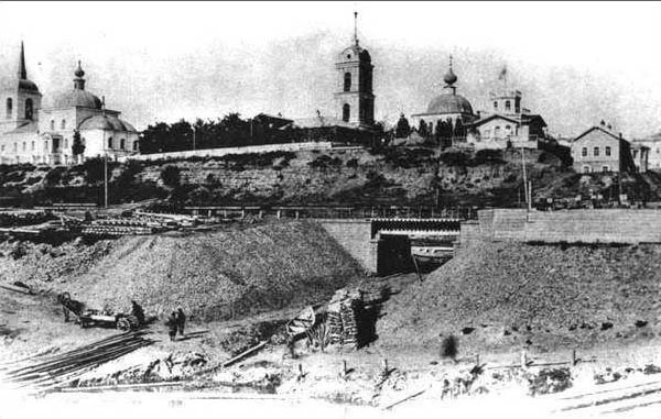 Trinity church (left) and Church of the Assumption in Tsaritsyn (Volgograd) city.